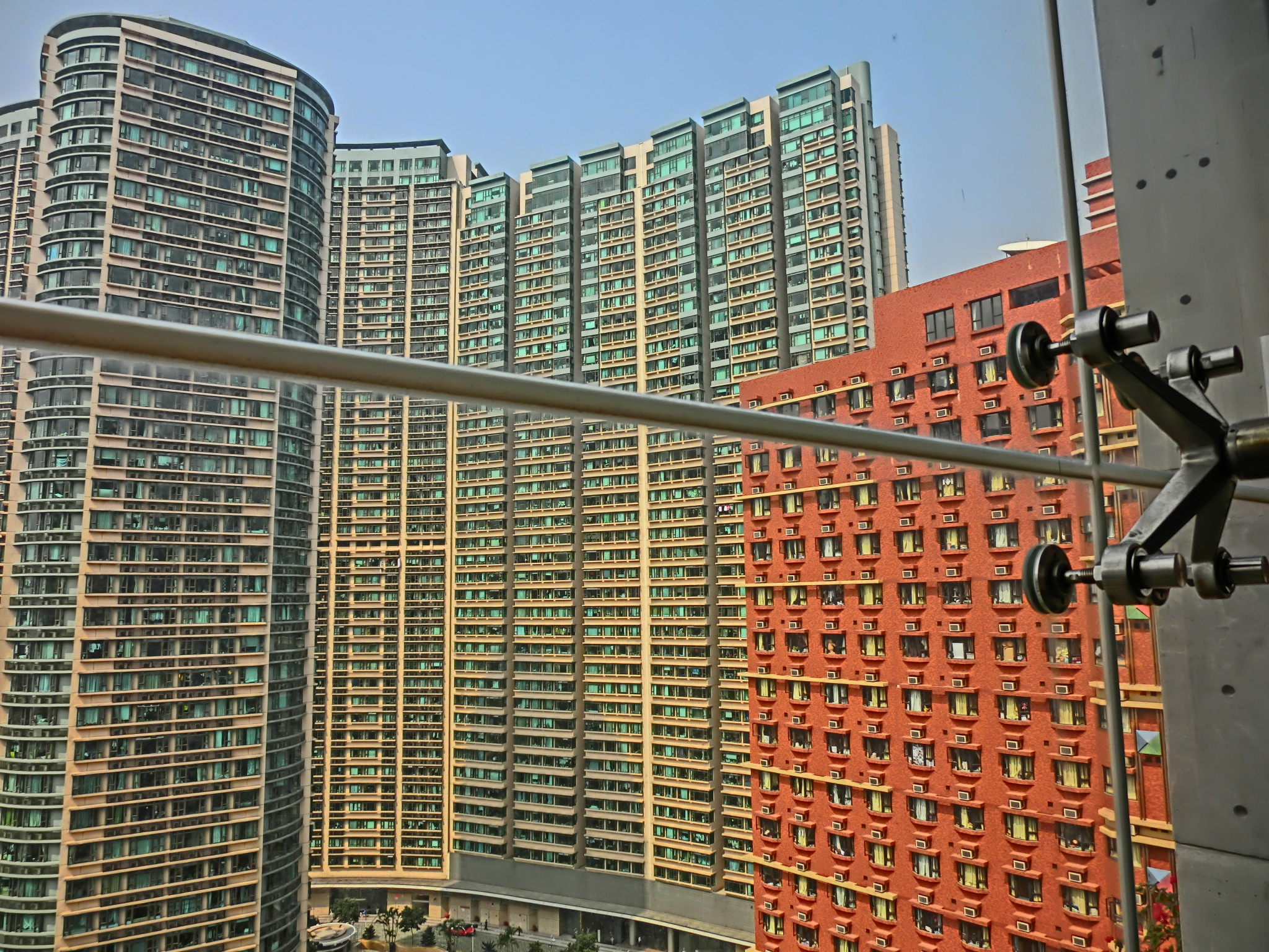 香港理工大學 香港專上學院, Hong Kong Community College, No.8 Hung Lok Road, Hung Hom Bay, Hong Kong